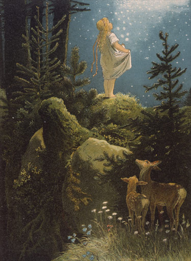 illustration of the Brothers Grimm fairy tale "The Star Money" (Die Sterntaler) by Victor Paul MOHN